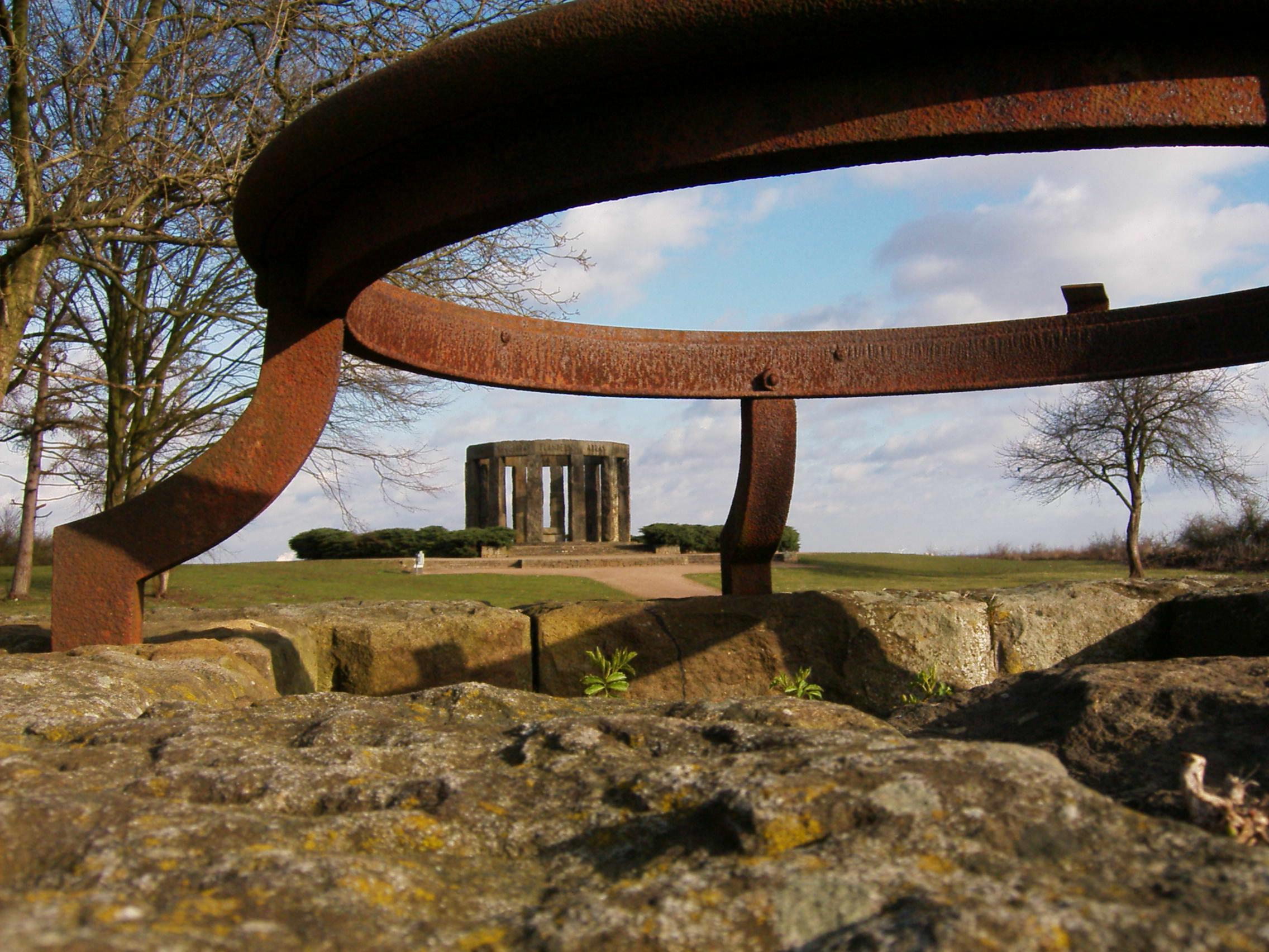 Memorial Hünenborg in Rheine, Germany